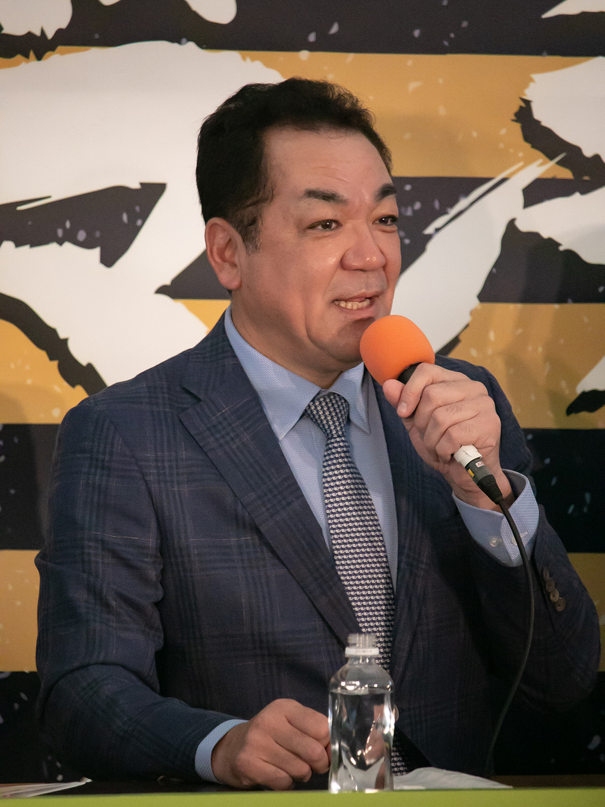 Hiromi Makihara in Hanshin Racecourse.